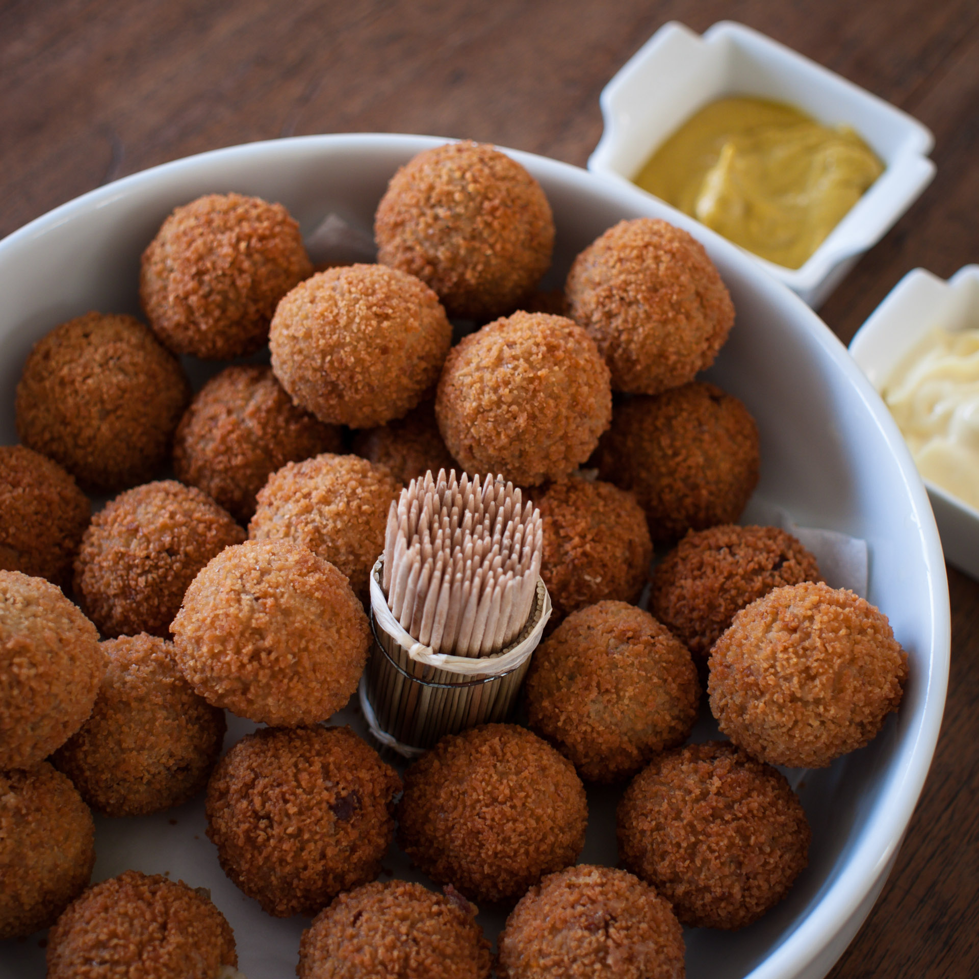 Bitterballen are a popular deep-fried Dutch snack. The ones here have been bought frozen and then fried at home. They are made by rolling chilled, flour-thickened beef ragout into balls of around 4 cm in diameter, which are then covered with egg and breadcrumbs. Popularly eaten with mustard, some people also like having mayonnaise with them. They are called "bitterballen" because they were traditionally eaten together with a "bitter", a strong alcoholic beverage which has been spiced with herbs.When reusing this file outside of Wikimedia and its affiliate sites, you are required to attribute this work as specified in "Commons:Credit line" and adhere to the same license under which the work was published.